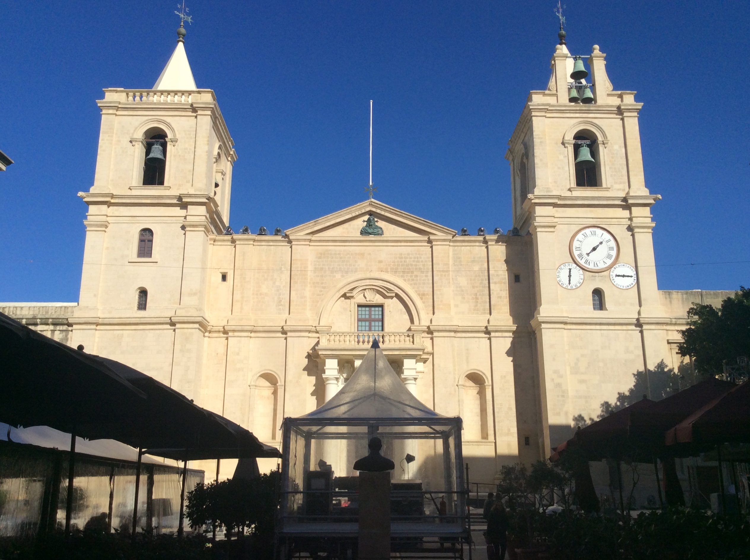 St. John's Co-Cathedral - Exterior